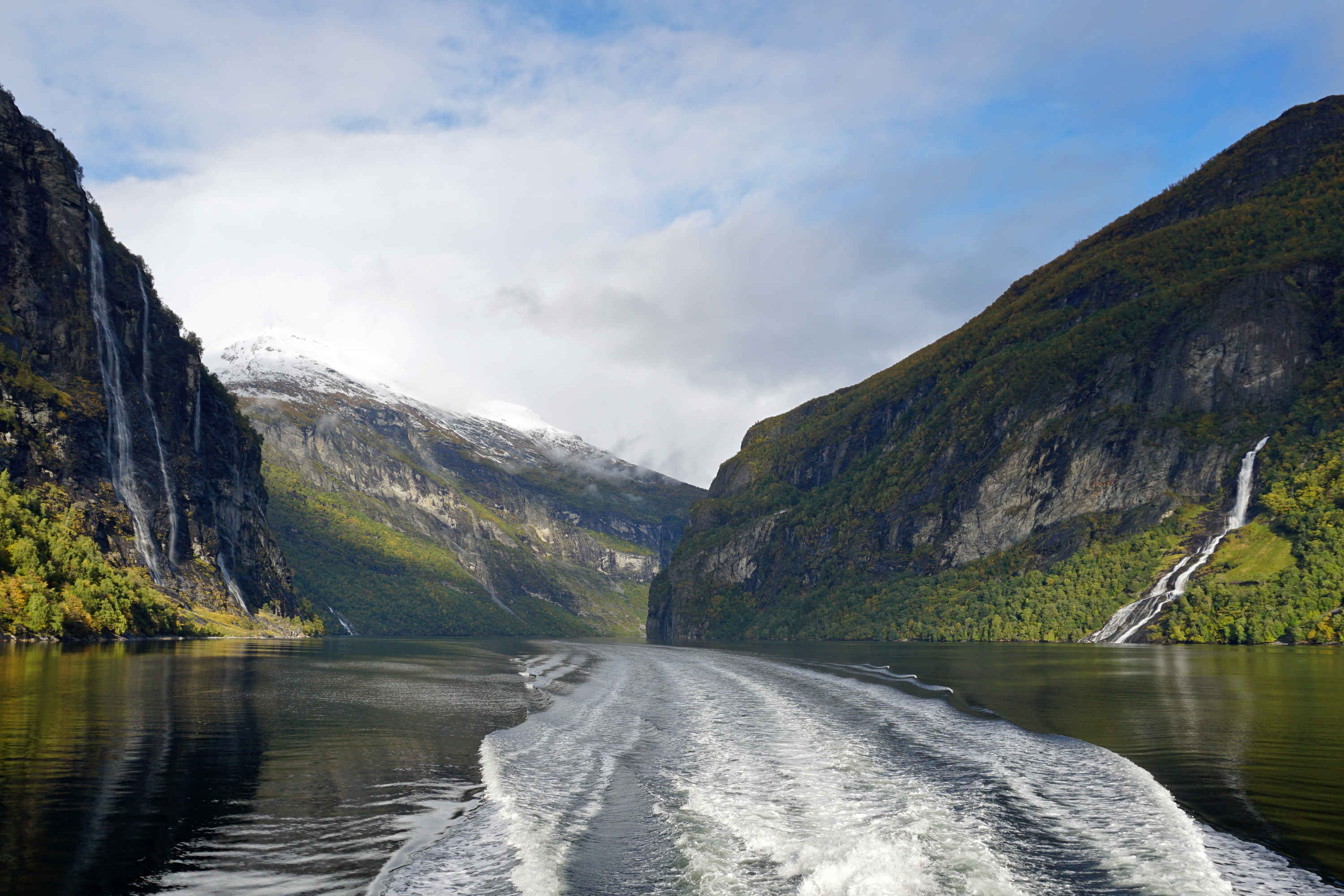 Seven Sisters (left) and the Suitor (right) waterfalls, Geirangerfjorden, Norway.